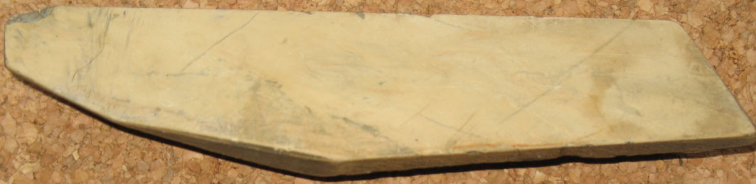 Broksten, belgisk. This file was made by B. M. Askholm, Please credit this: B. Askholm foto, July 2006 An email to B. Mathias at baskholm(--) would be appreciated too.